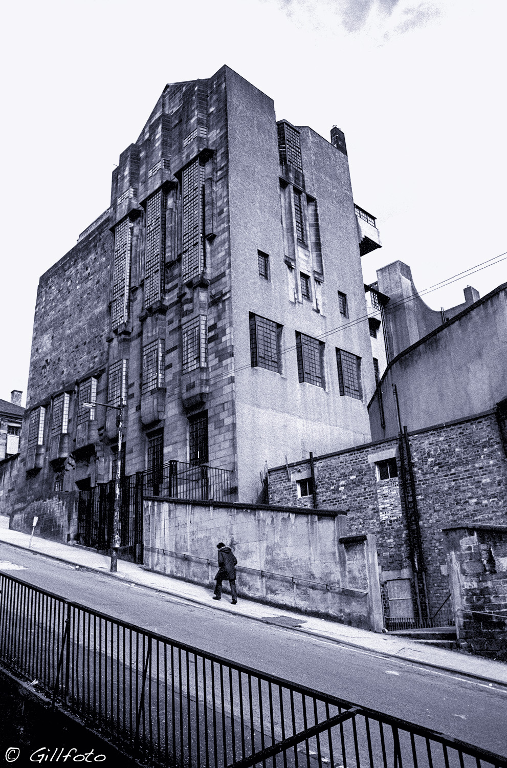 Glasgow School of Art, building designed by Charles Rennie Mackintosh